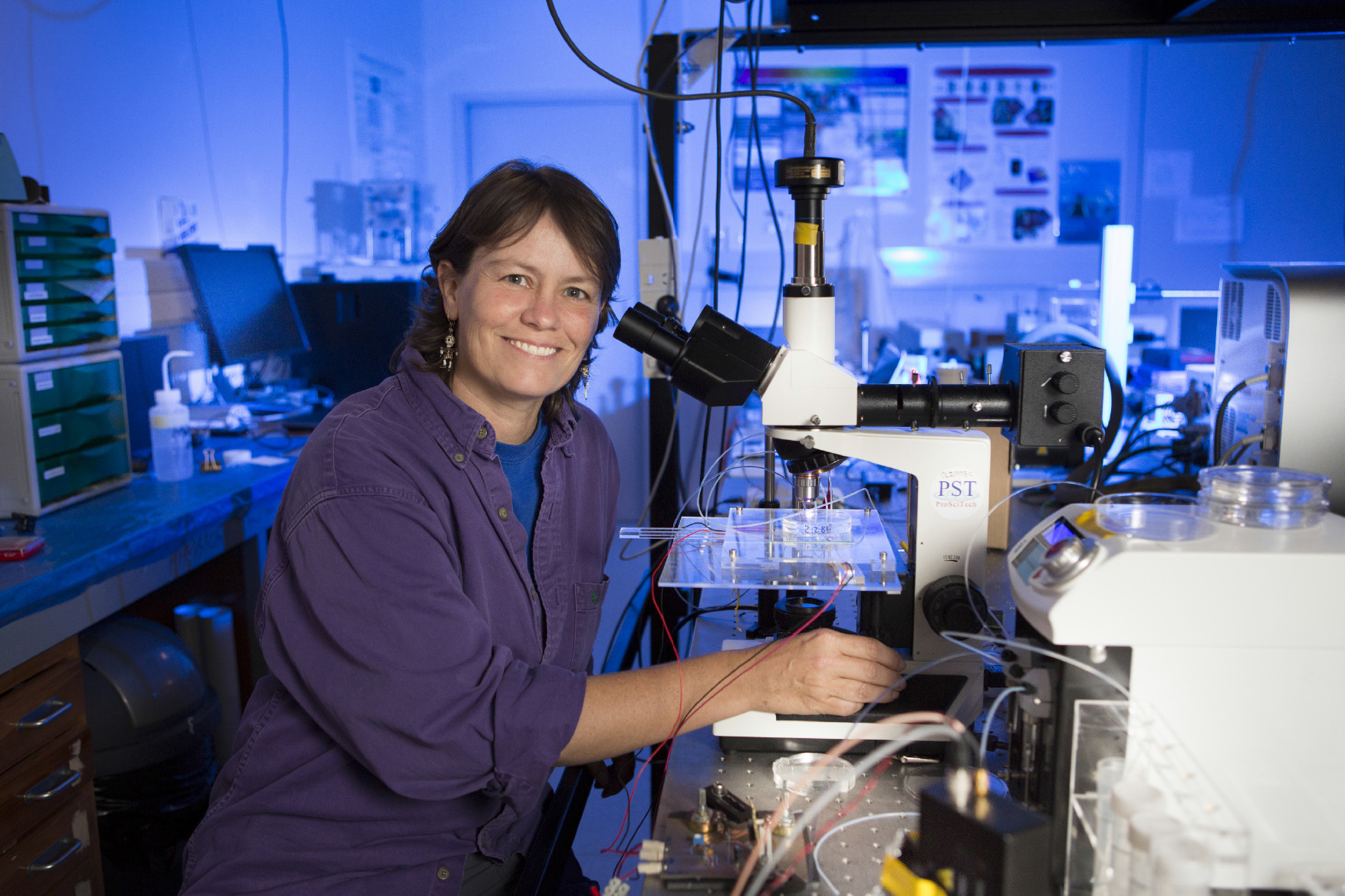 Photographer: University of Auckland Place: The Photon Factory, University of Auckland Copyright: University of Auckland donated to DWC Description: Cather Simpson in the Photon Factory